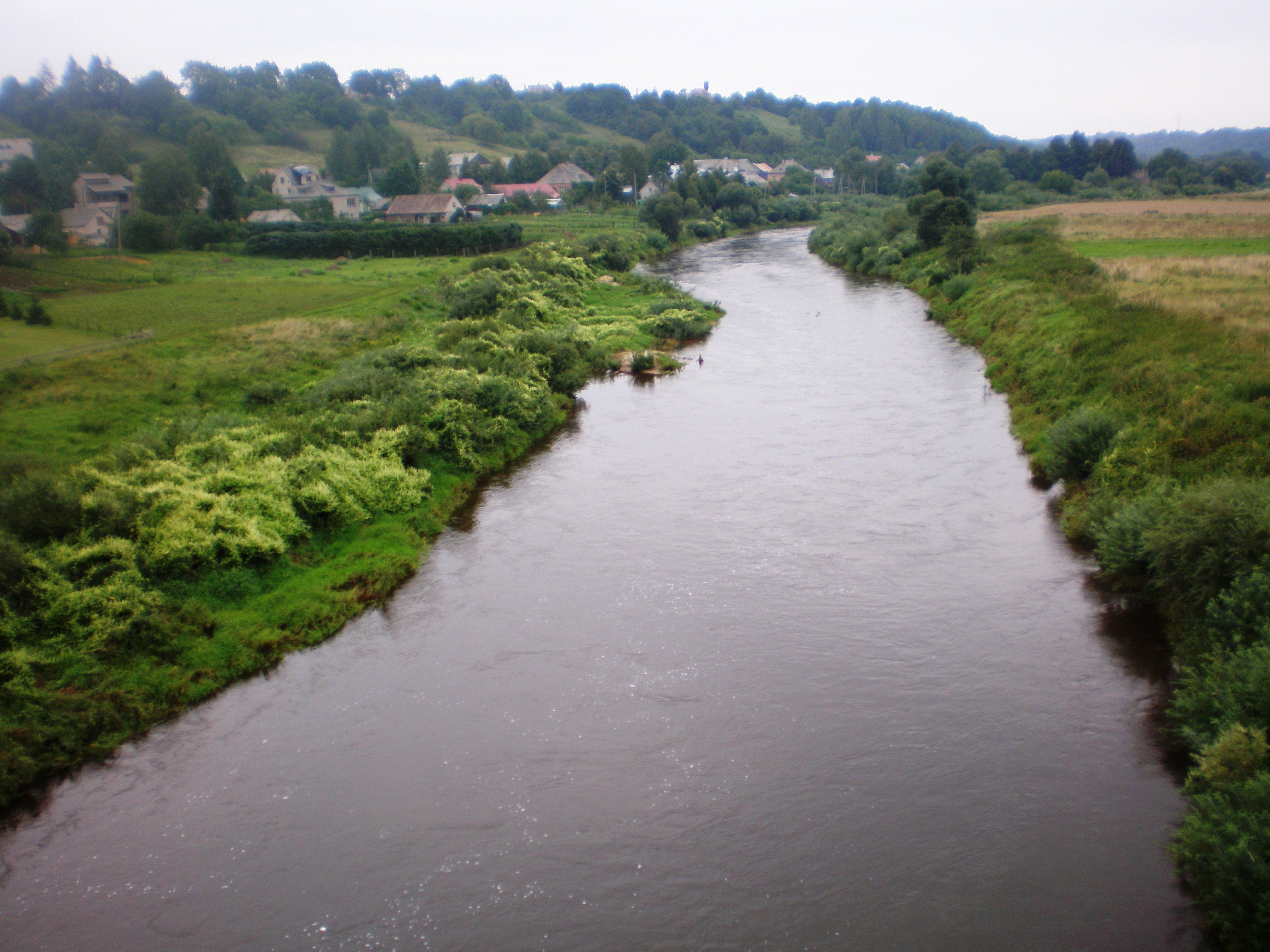 Dubysa river by Seredžius